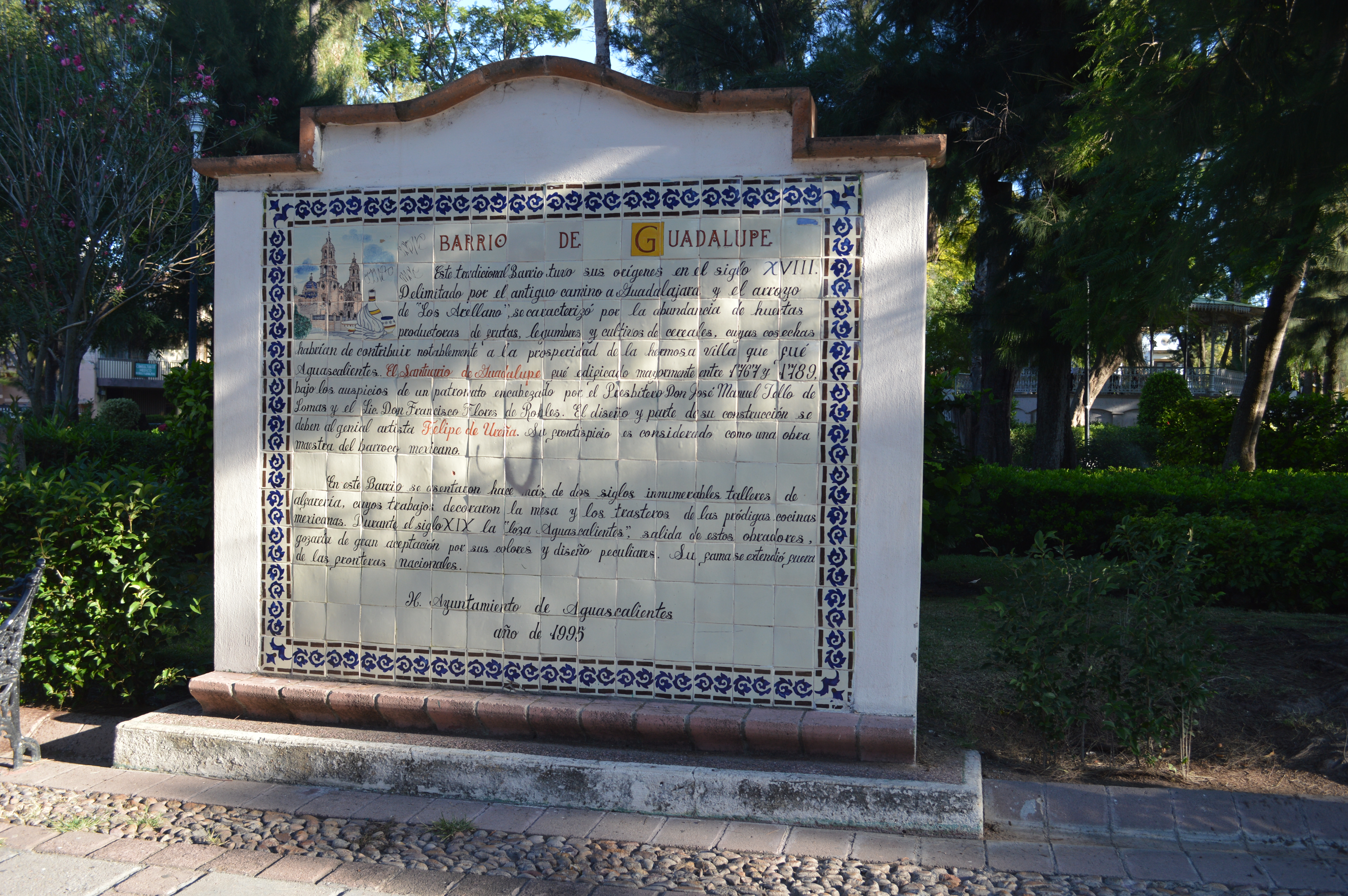 Plaque about the barrio in the main plaza of the Barrio de Guadalupe in the city of Aguascalientes